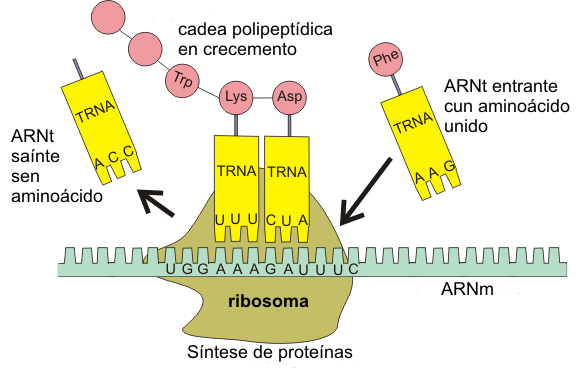 ARNt role in protein synthesis